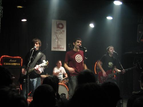 Deabruak teiulatuetan basque music group in Tolosa.